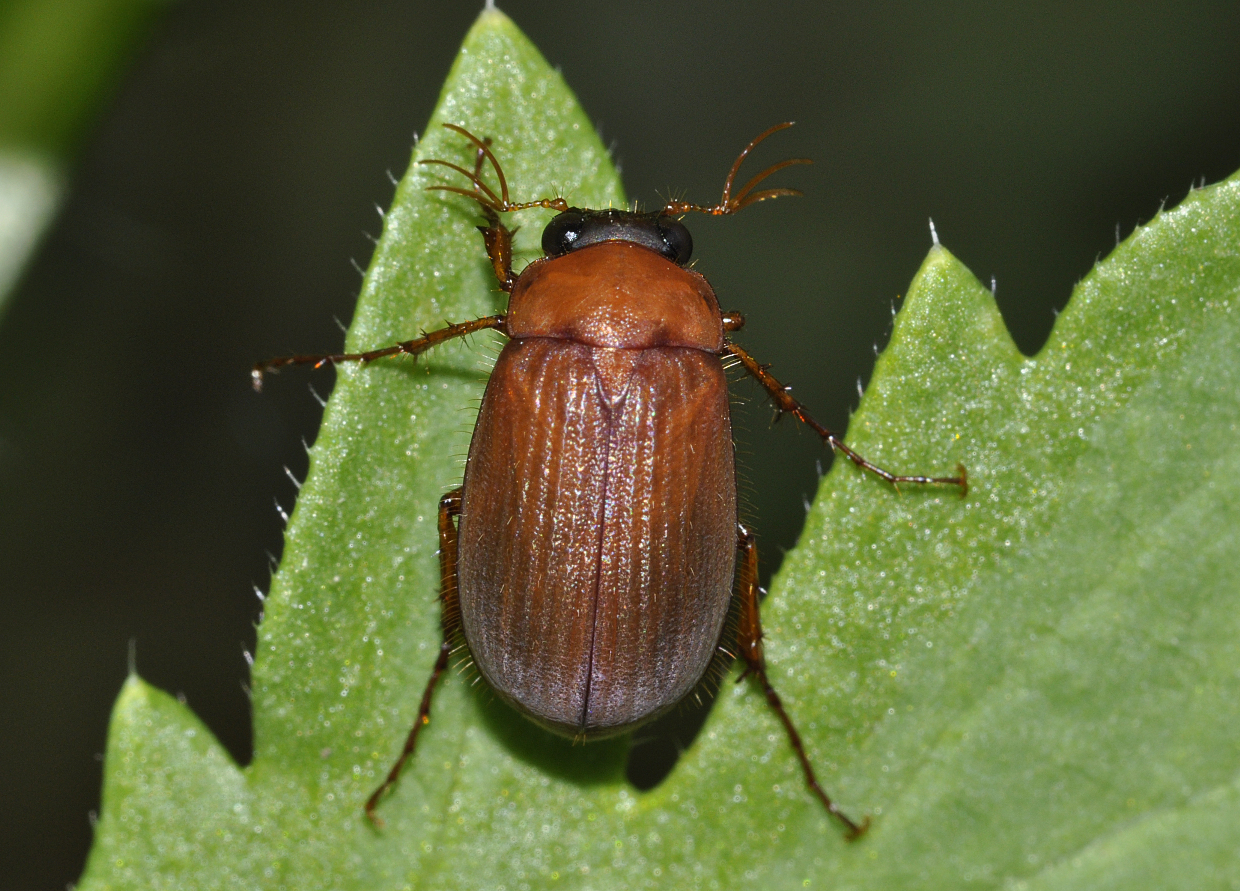 Serica brunnus (Linnæus, 1758) (Serica brunnea seems to be incorrect, the original spelling from 1758 was brunnus, not brunneus). Germany: Brandenburg, Werder near Potsdam.